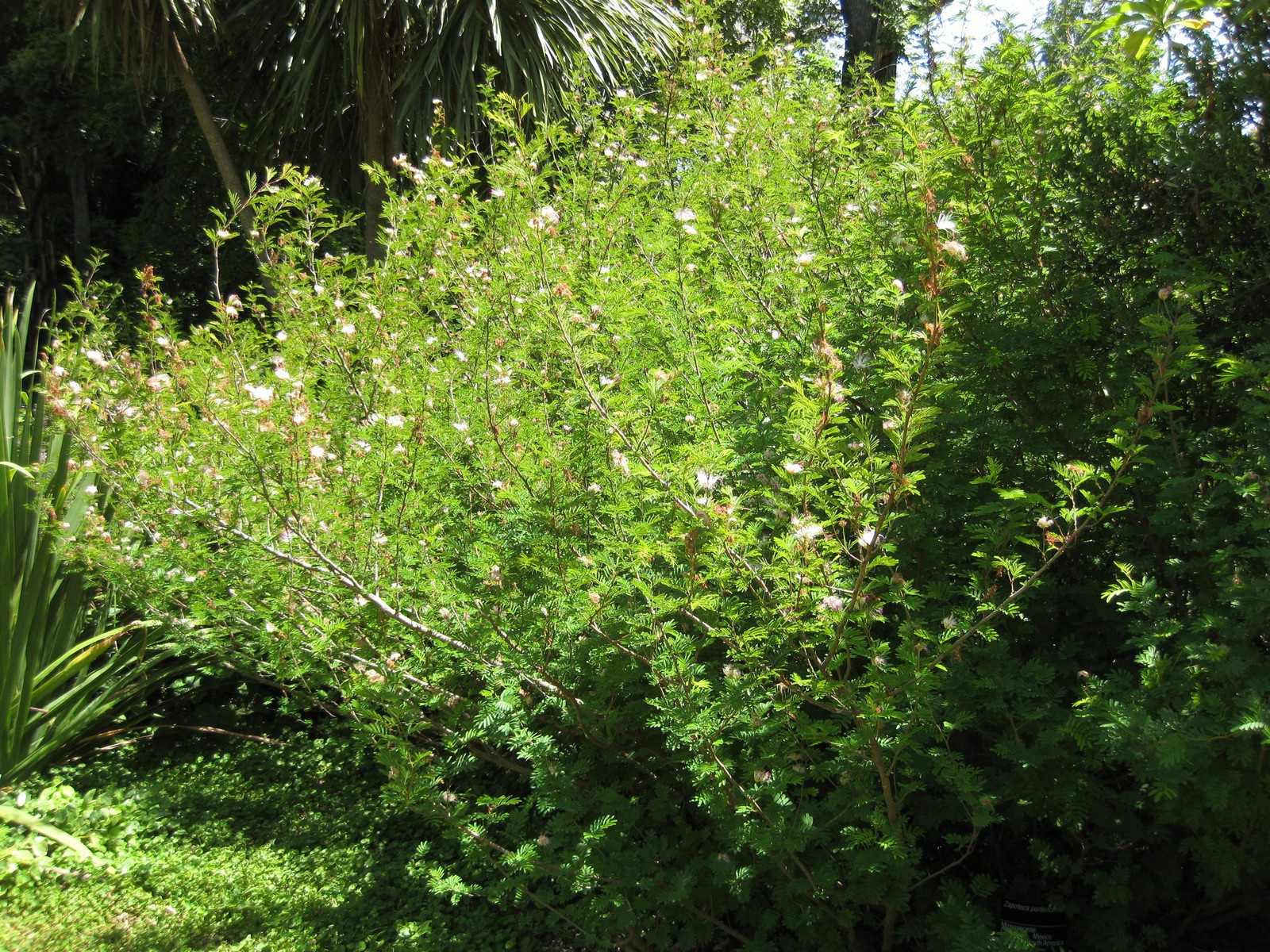 Photographed at the Royal Botanic Gardens Melbourne (Australia) in December